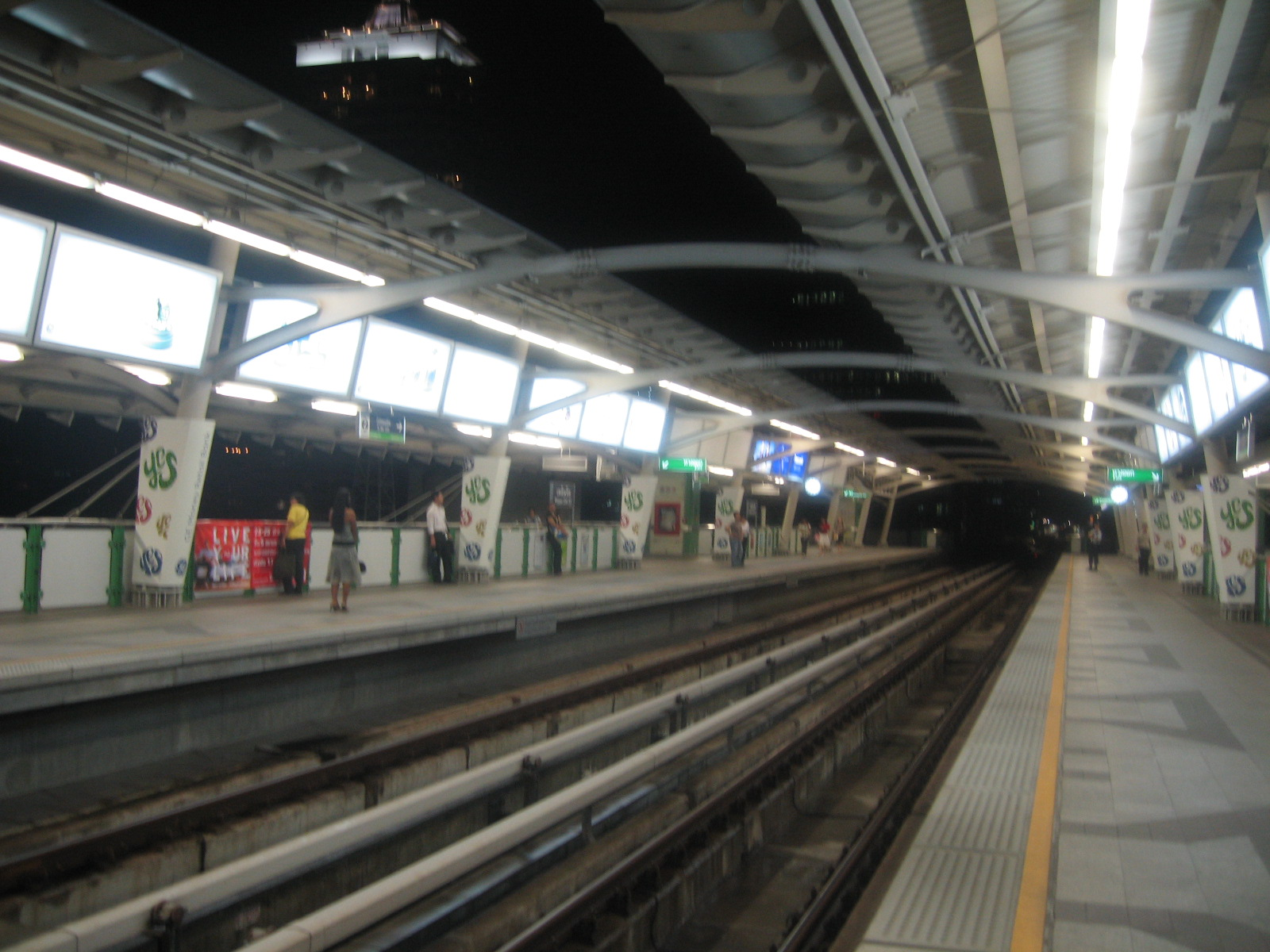 BTS Phloen Chit Station (Bangkok Skytrain).